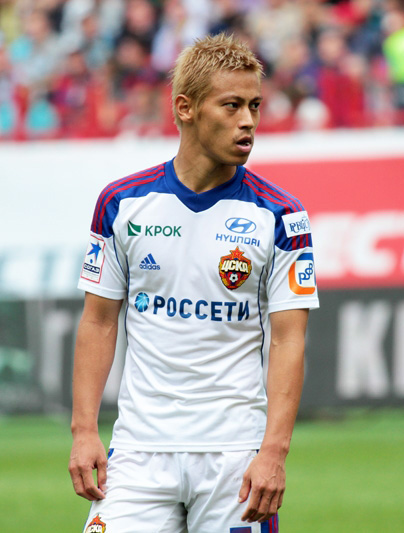 Keisuke Honda during Lokomotiv Moscow-CSKA Moscow, 28 July 2013